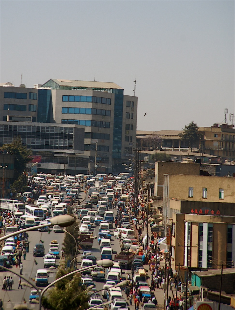 Street in Addis Abeba